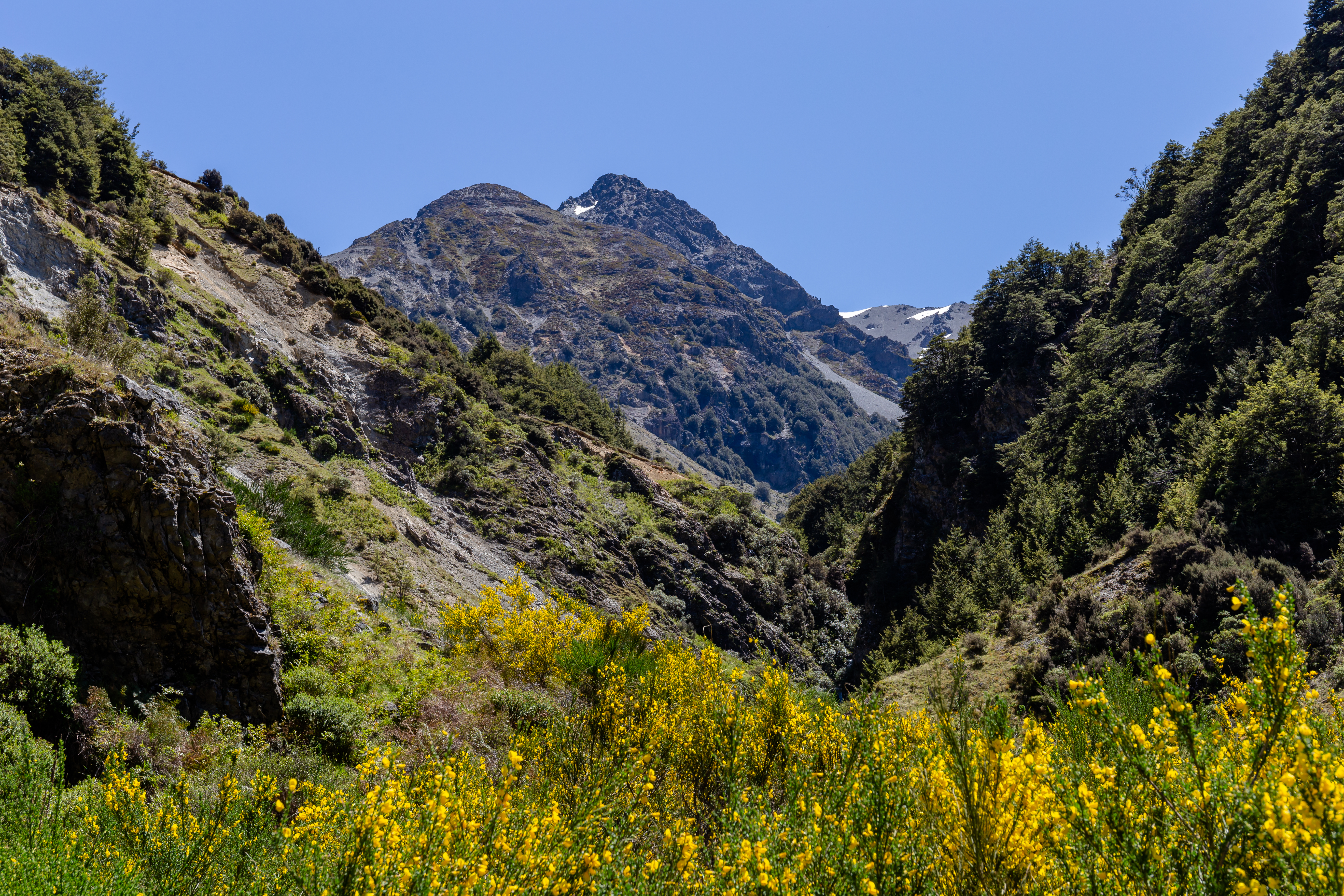 View to Black Range from Cass RIiver. Picture taken from Cass-Lagoon Saddle Track, Craigieburn Forest Park, Canterbury, New Zealand